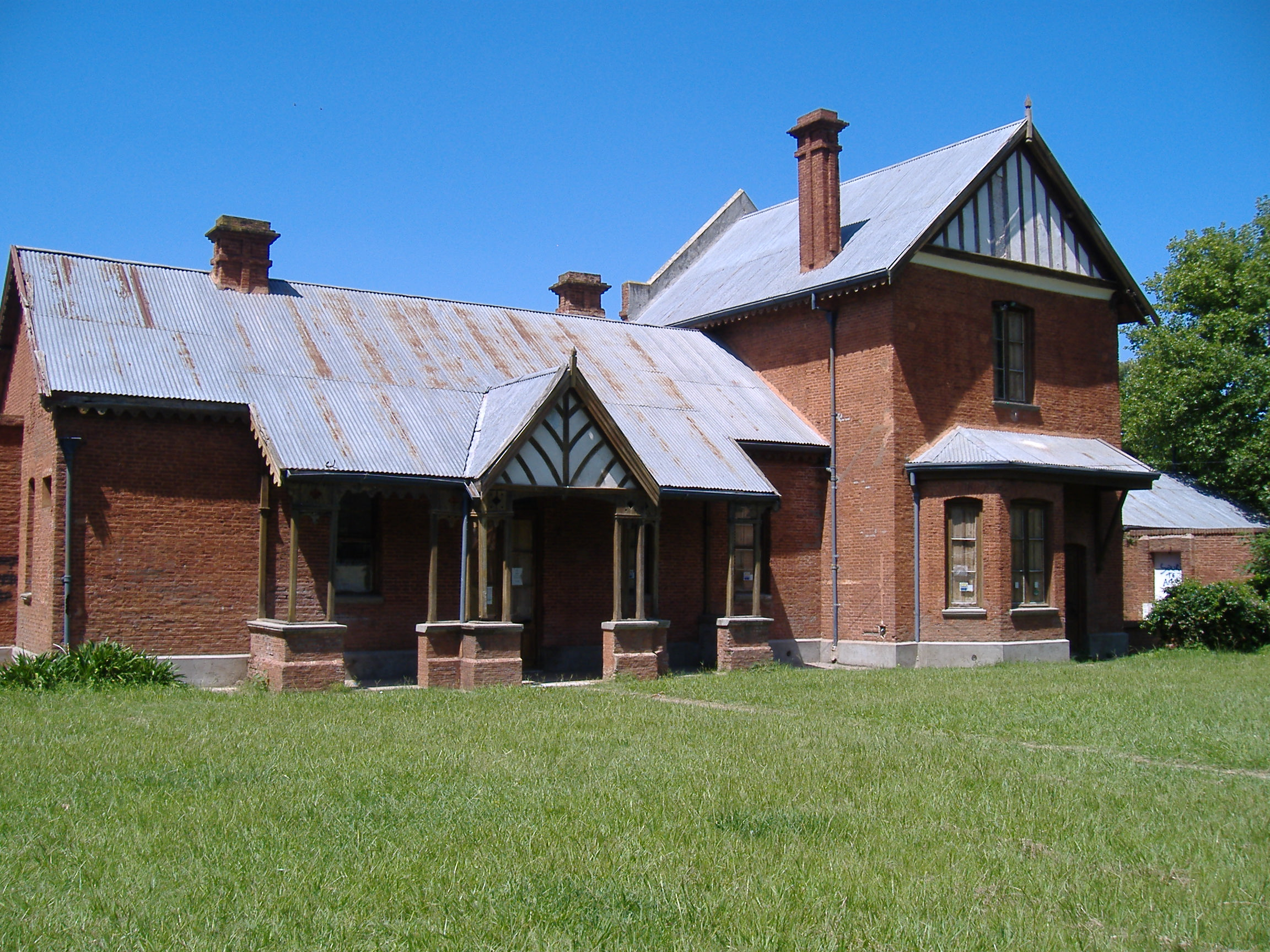 The old Antártida Argentina railway station in Barrio Fisherton, Rosario, Argentina.